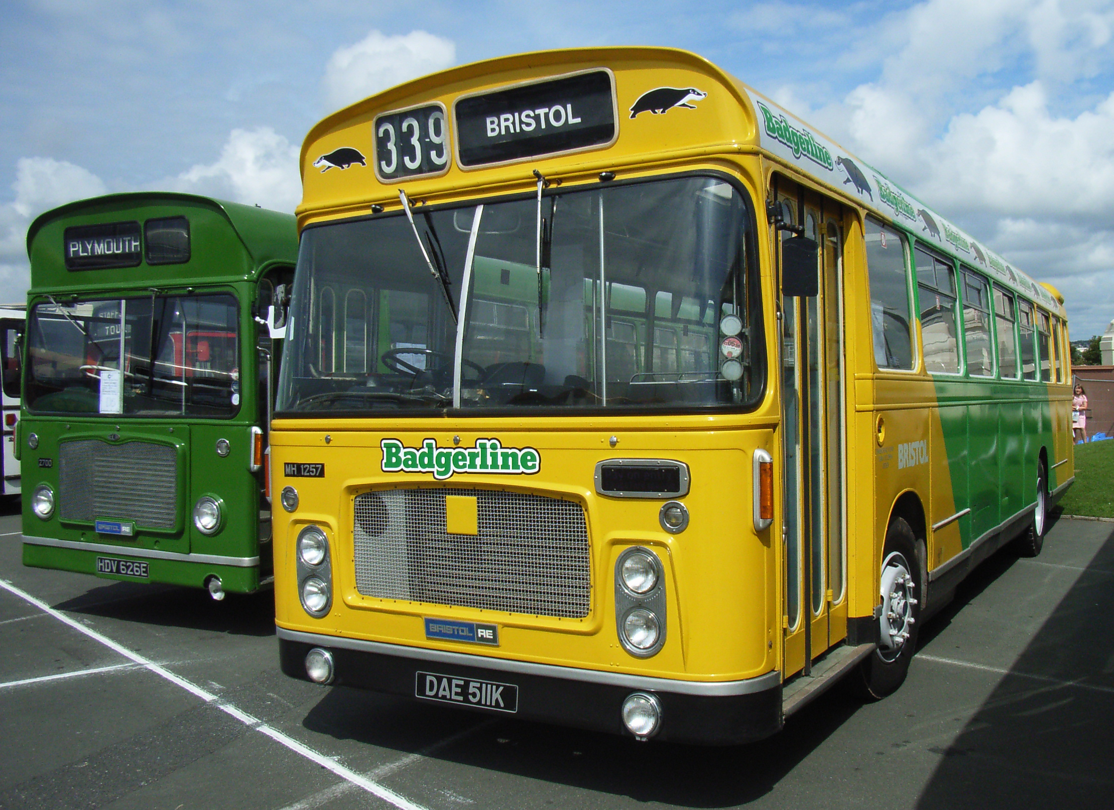 Western National Rally 22 July 2007